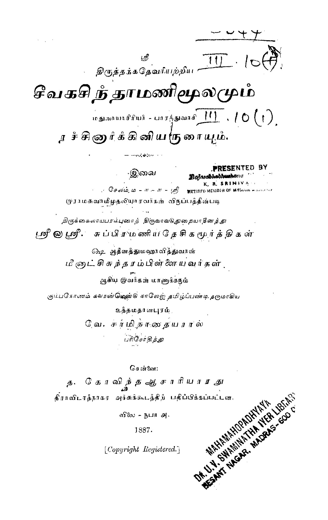 Title page of U. V. Swaminatha Iyer's 1887 edition of the Cīvakacintāmaṇi, a work of classical Tamil literature.